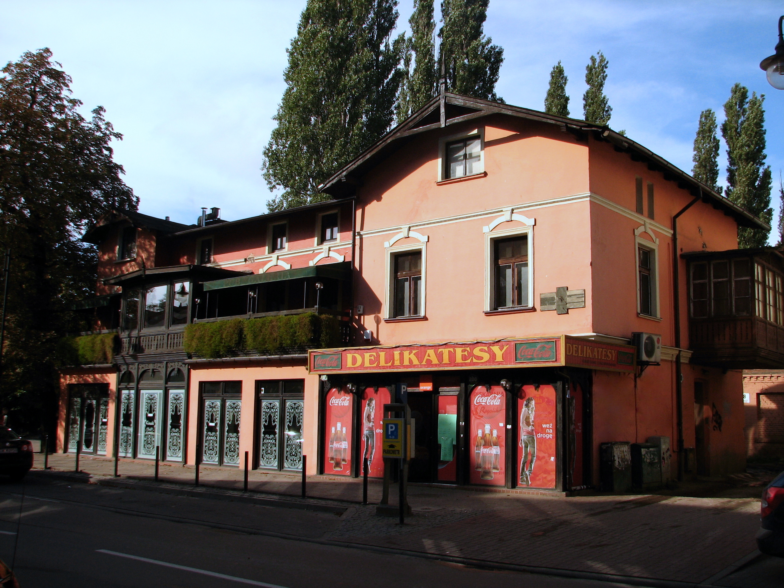 Klaus Kinski's birthplace in Sopot, Poland. Tadeusz Kościuszko Street.